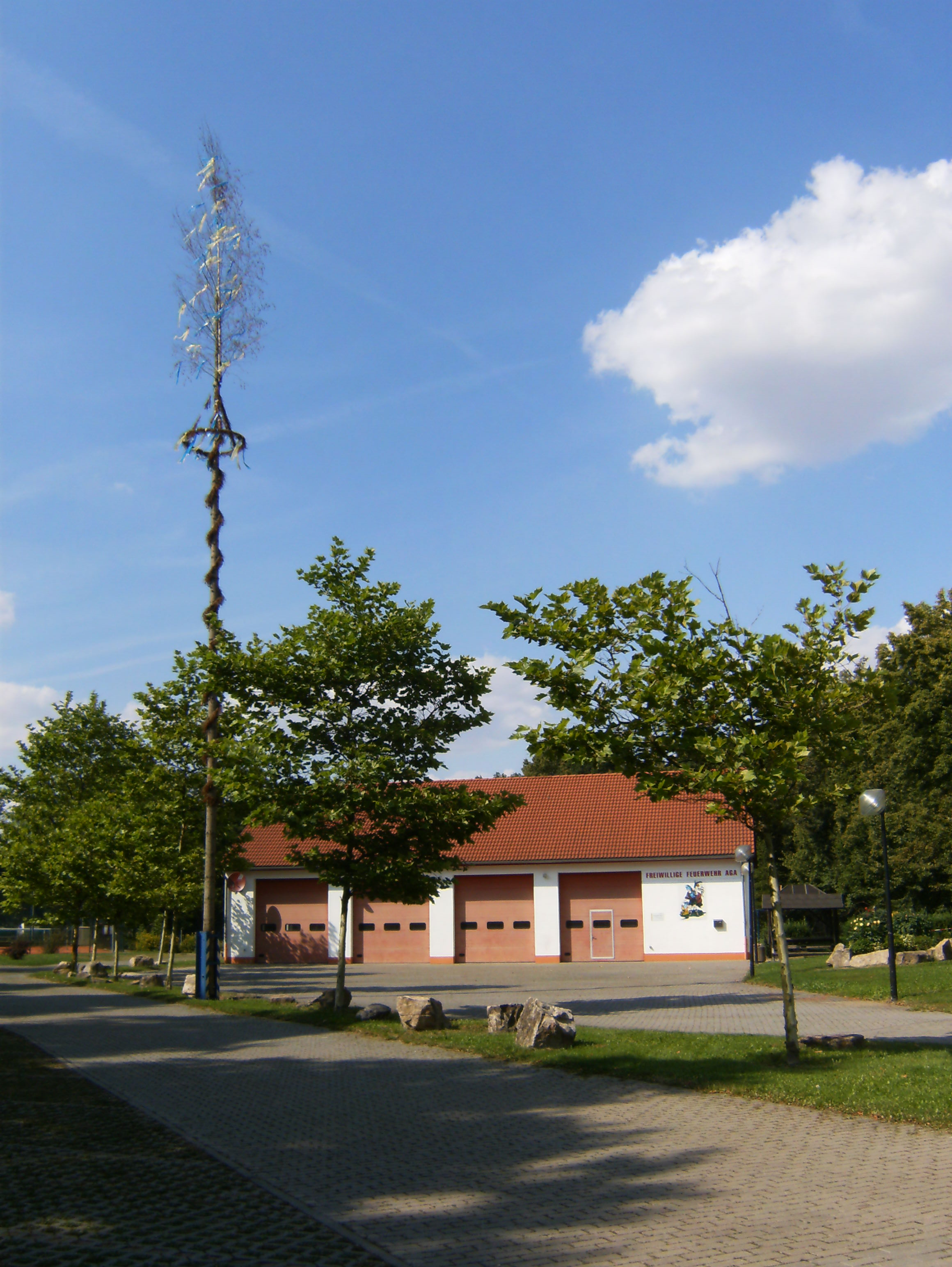 Gera Kleinaga fire watch with rural maypole (2009).